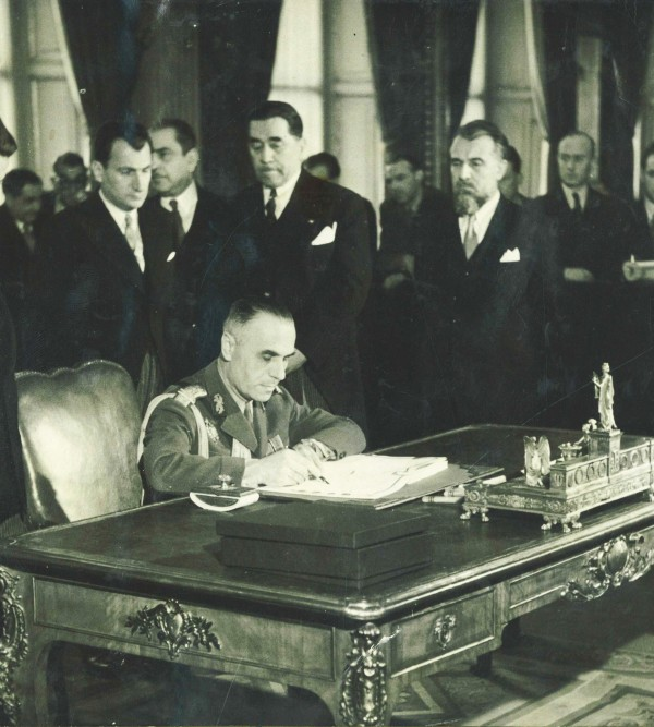 General Dumitru_Dămăceanu signing in behalf of The Kingdom of Romania, the Paris Peace Treaties on February 10, 1947. Salon de l'Horloge, Ministère des Affaires Etrangères, Paris, France.